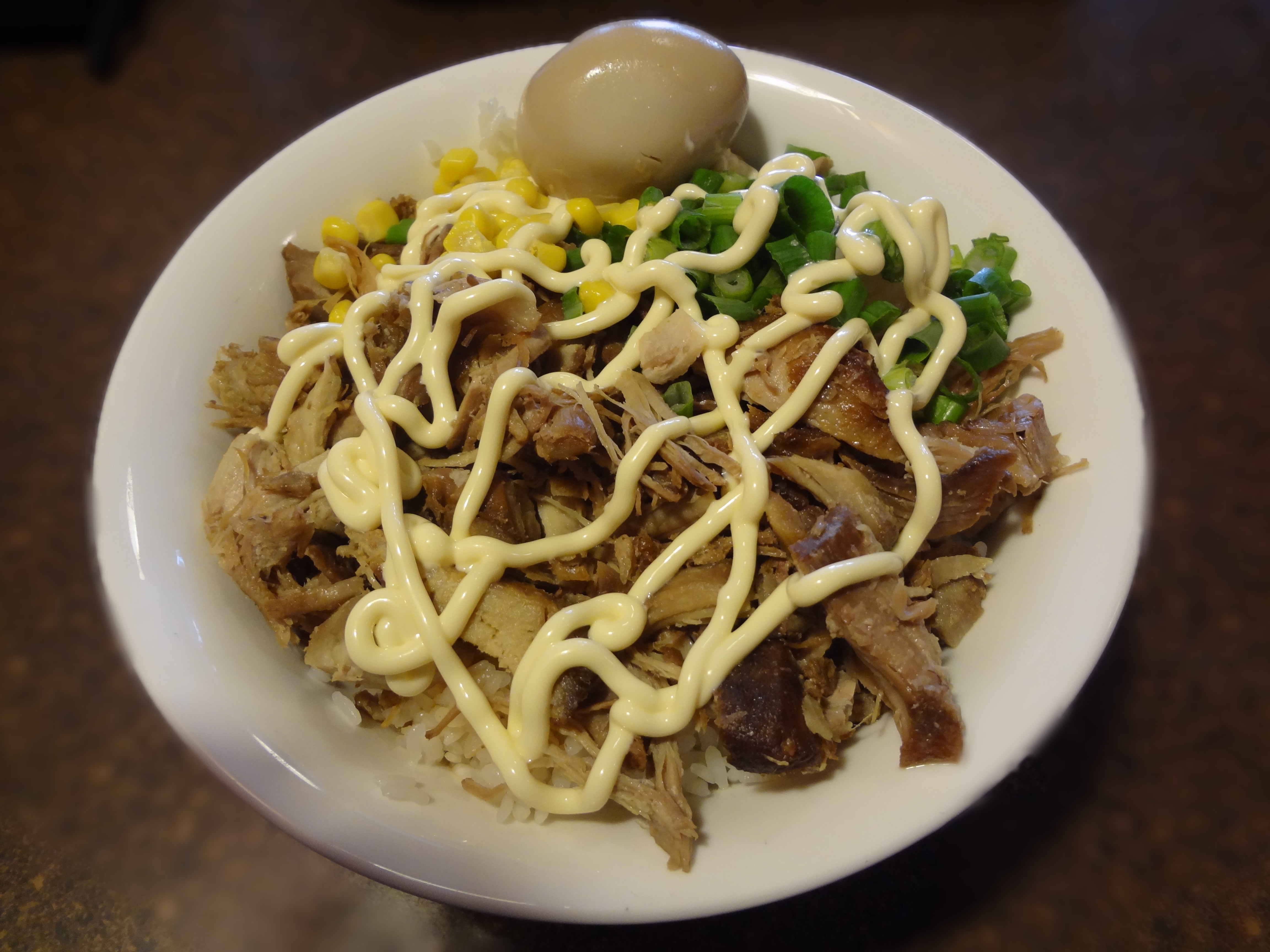 Sumōdon